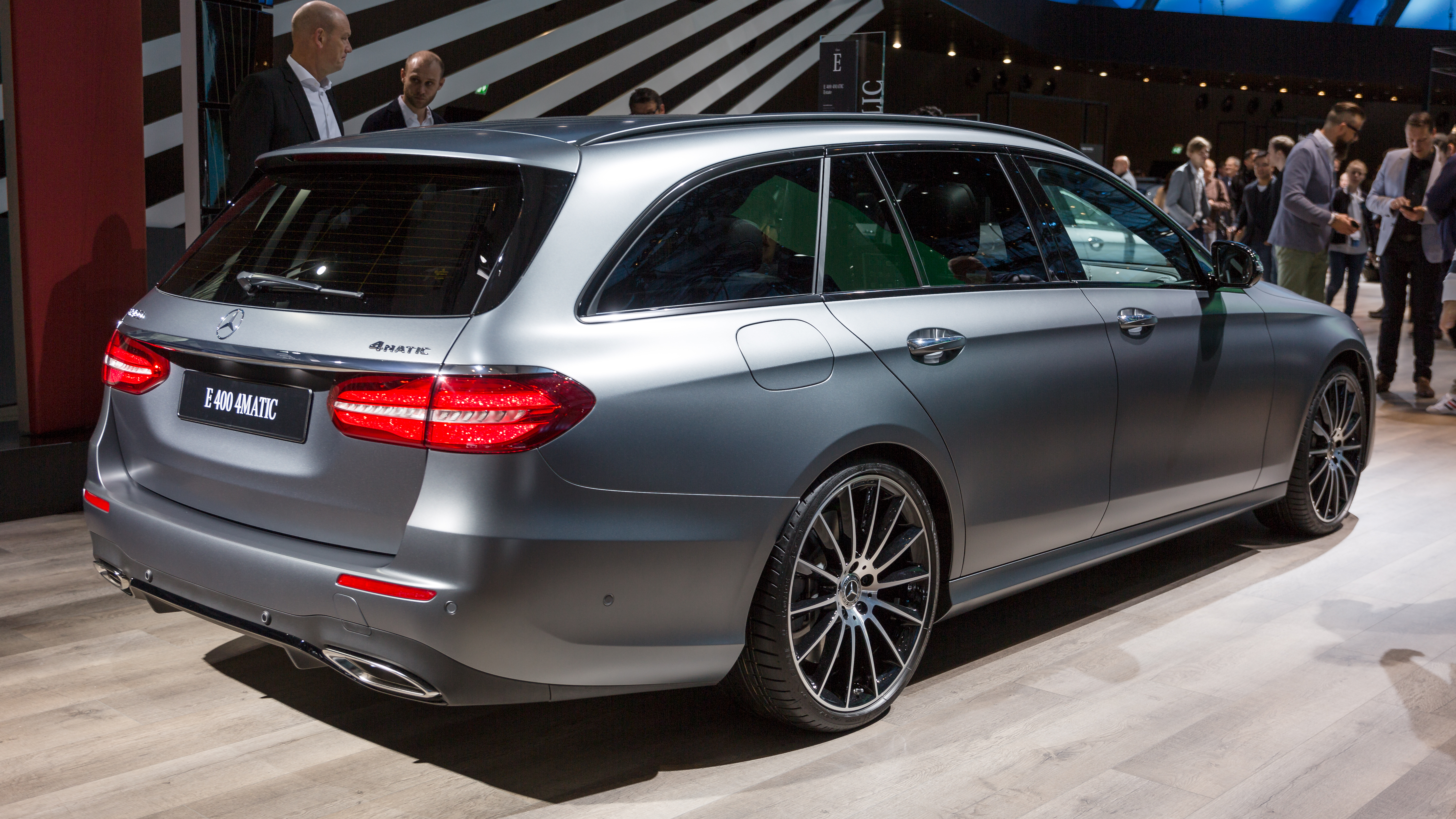 Mercedes-Benz E 400 4MATIC, IAA 2017